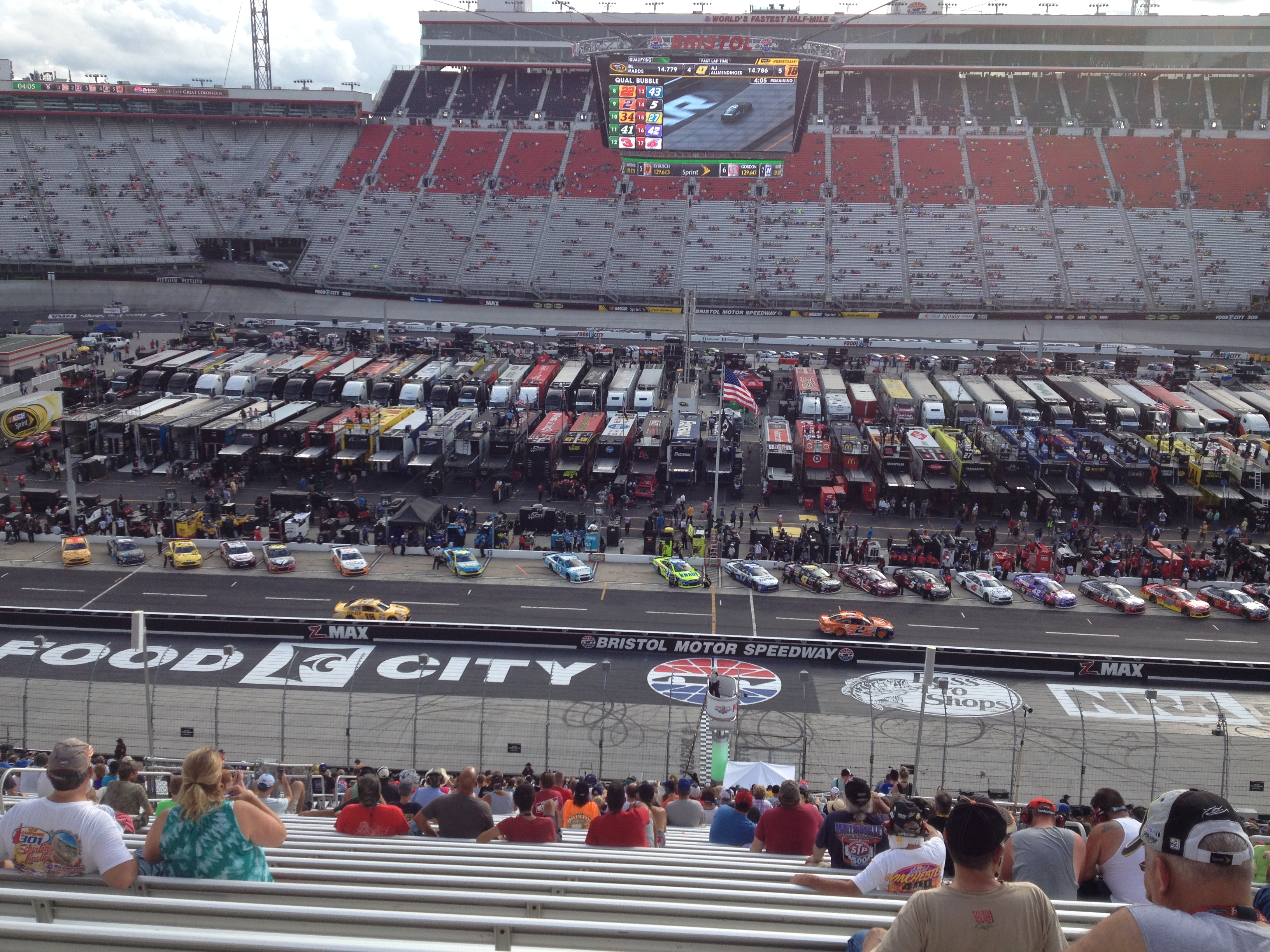 Qualifying for the 2016 Bass Pro Shops NRA Night Race at Bristol Motor Speedway viewed from the frontstretch